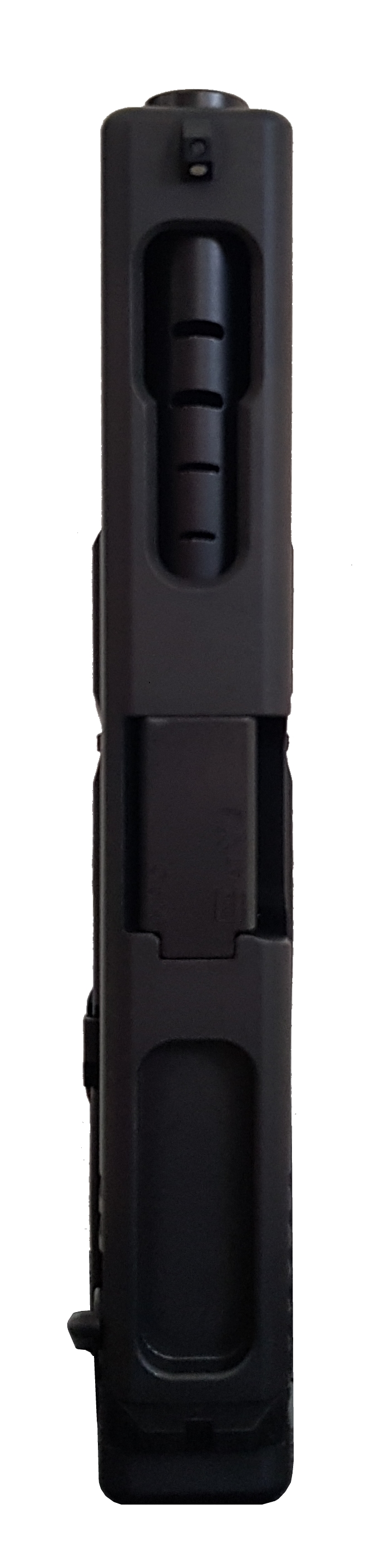 Top view of a Glock 18C (compensated) model with ported barrel and cutout in the slide. The fire selector is clearly visible on the bottom left side of the slide.